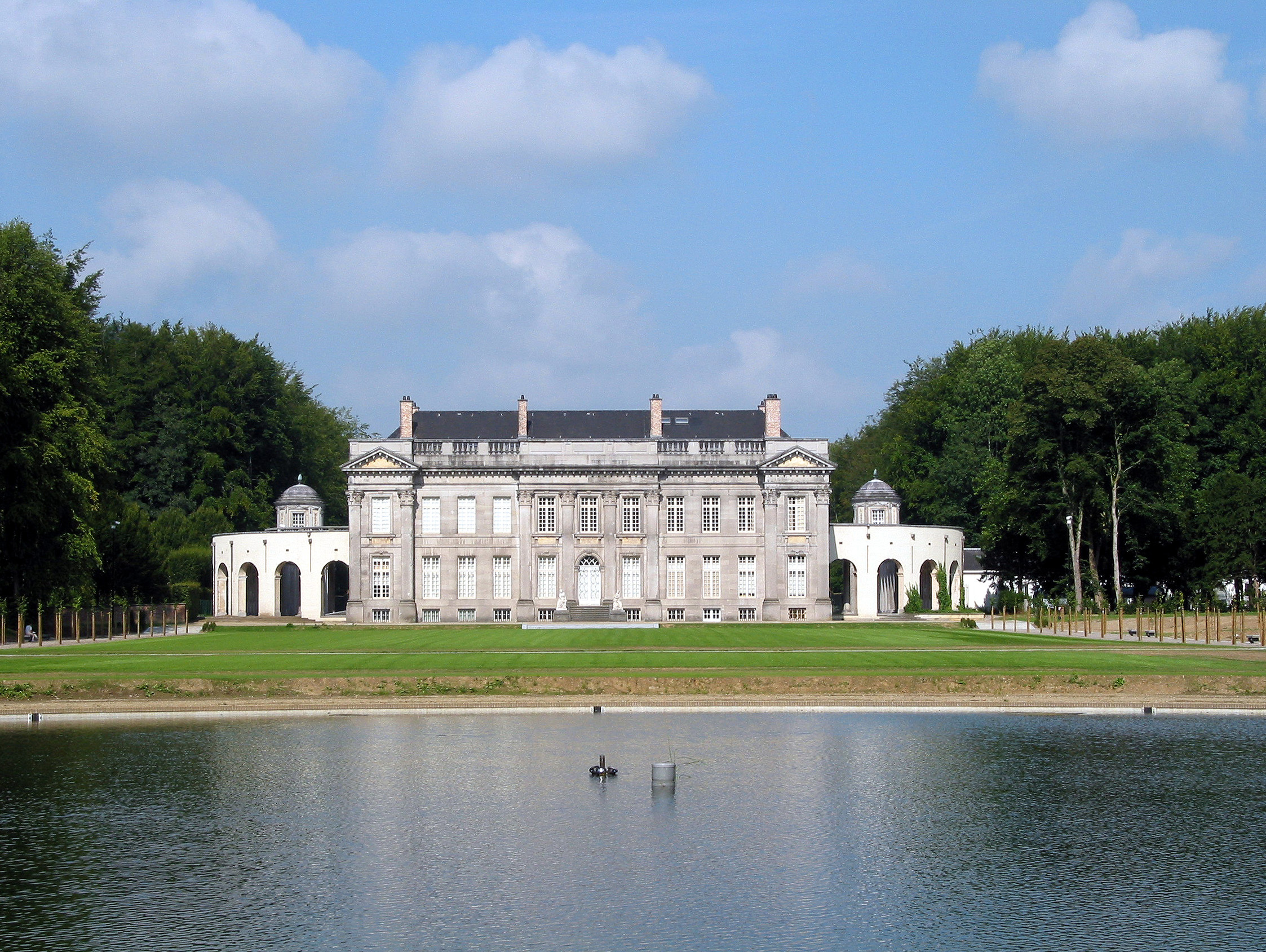 Seneffe (Belgium), the back side of the castle, the garden pond and the park (1763/1768 - Architect: Laurent-Benoit Dewez).